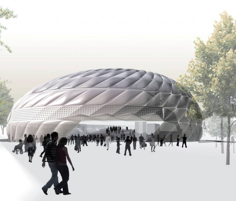 Futuro edificio del Registro Civil del Campus de la Justicia de Madrid